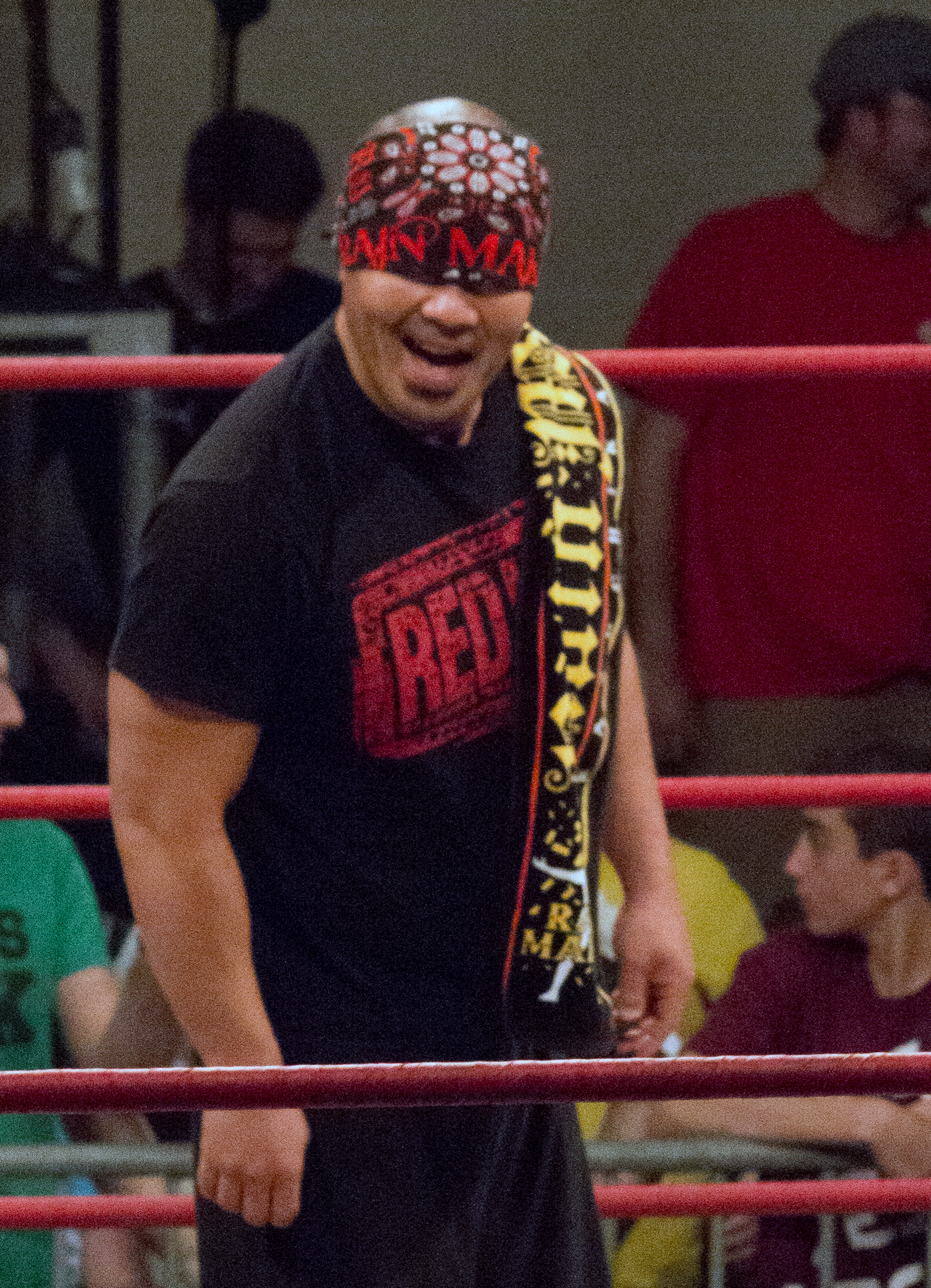 NJPW wrestler Gedo at BCW's East Meets West show at St Clair College in Windsor, ON. Cropped from original image, File:Gedo at BCW East Meets West.jpg.